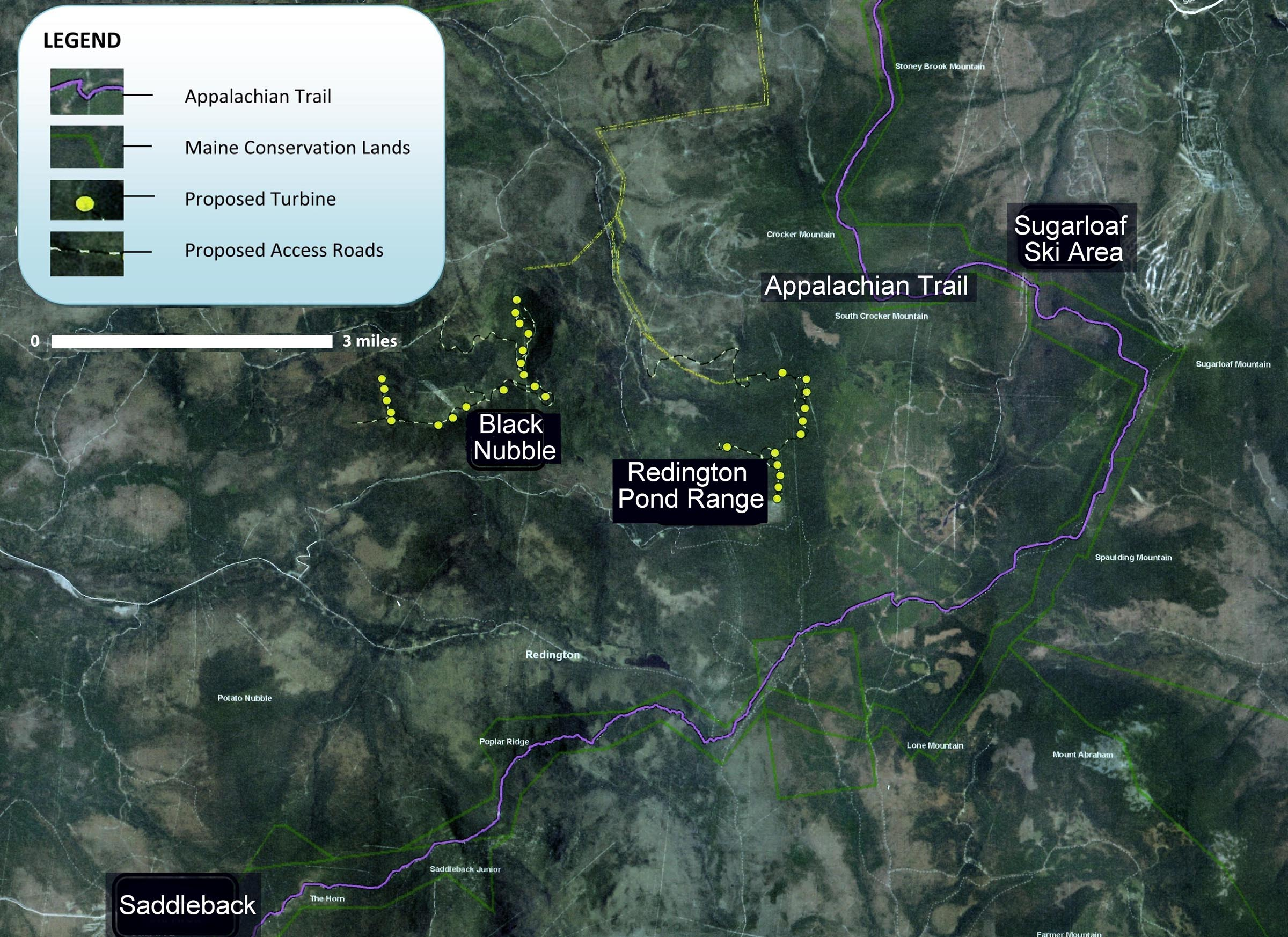 This map shows the location of the proposed Sugarloaf Community Wind Farm